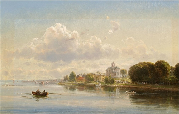 A Summer's Day at Hvidøre north of Copenhagen, Denmark